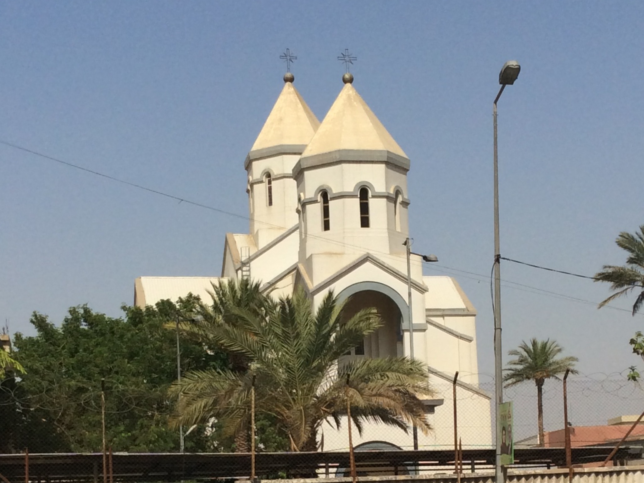 Armenian St. Gregory the Illuminator Church in Baghdad